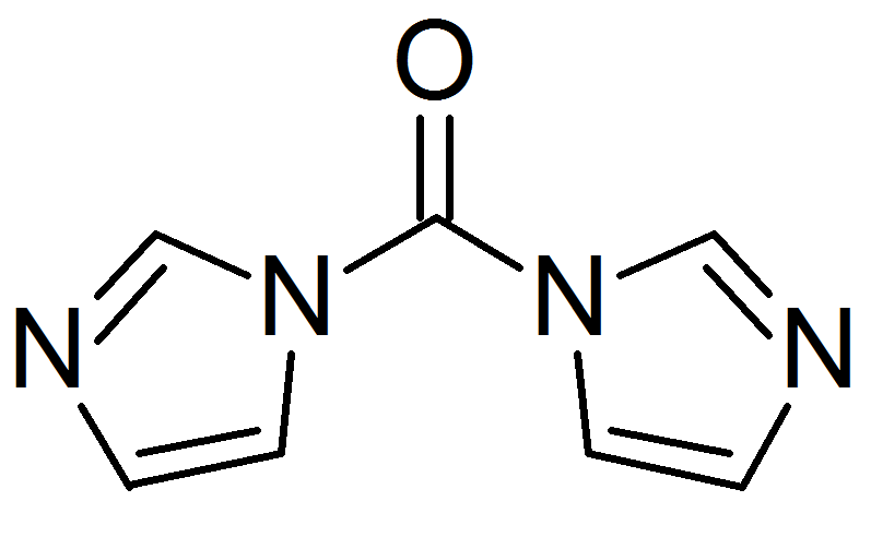 Chemical structure of carbonyldiimidazole